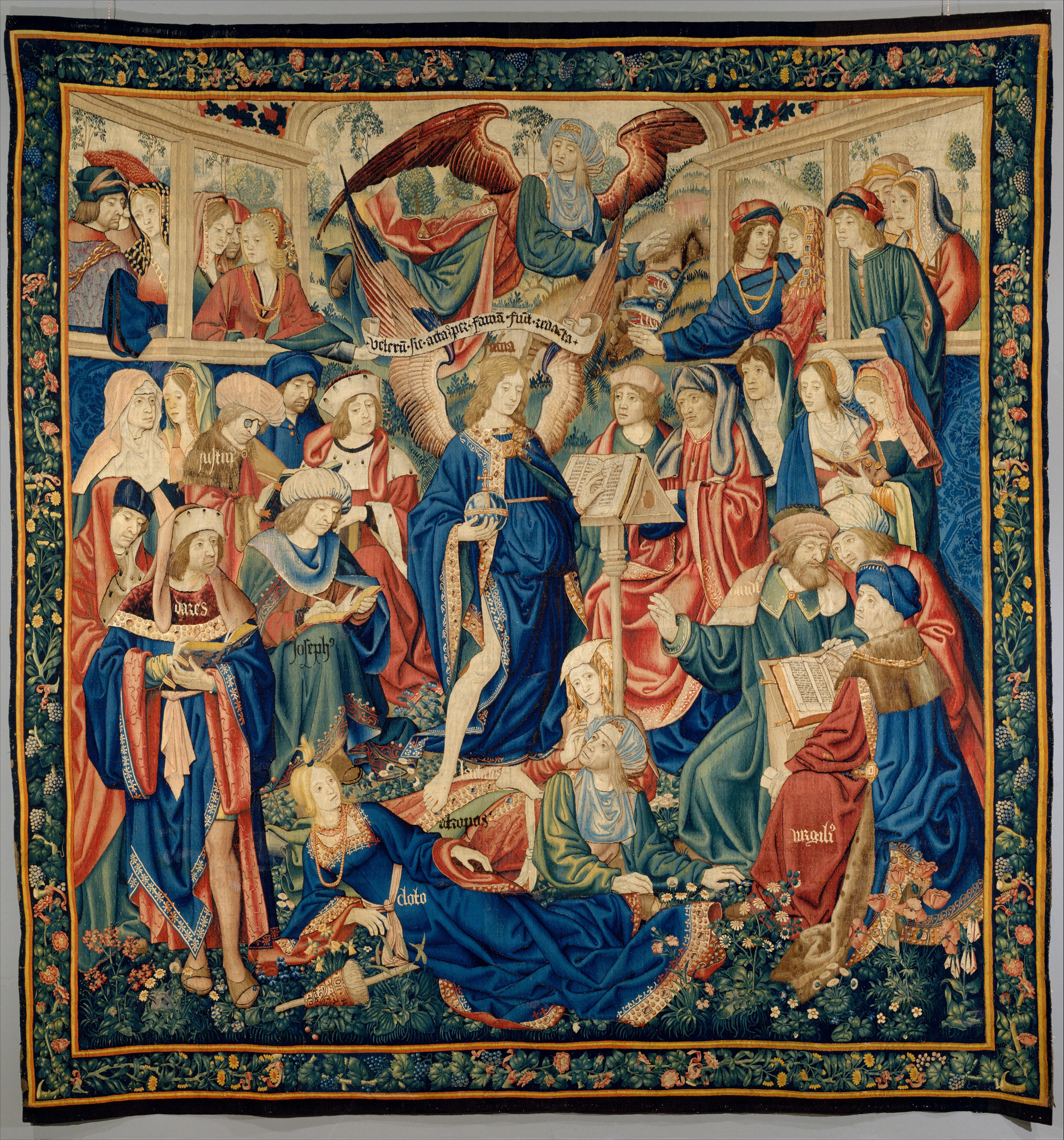 Flemish, probably Brussels; Tapestry; Textiles-Tapestries